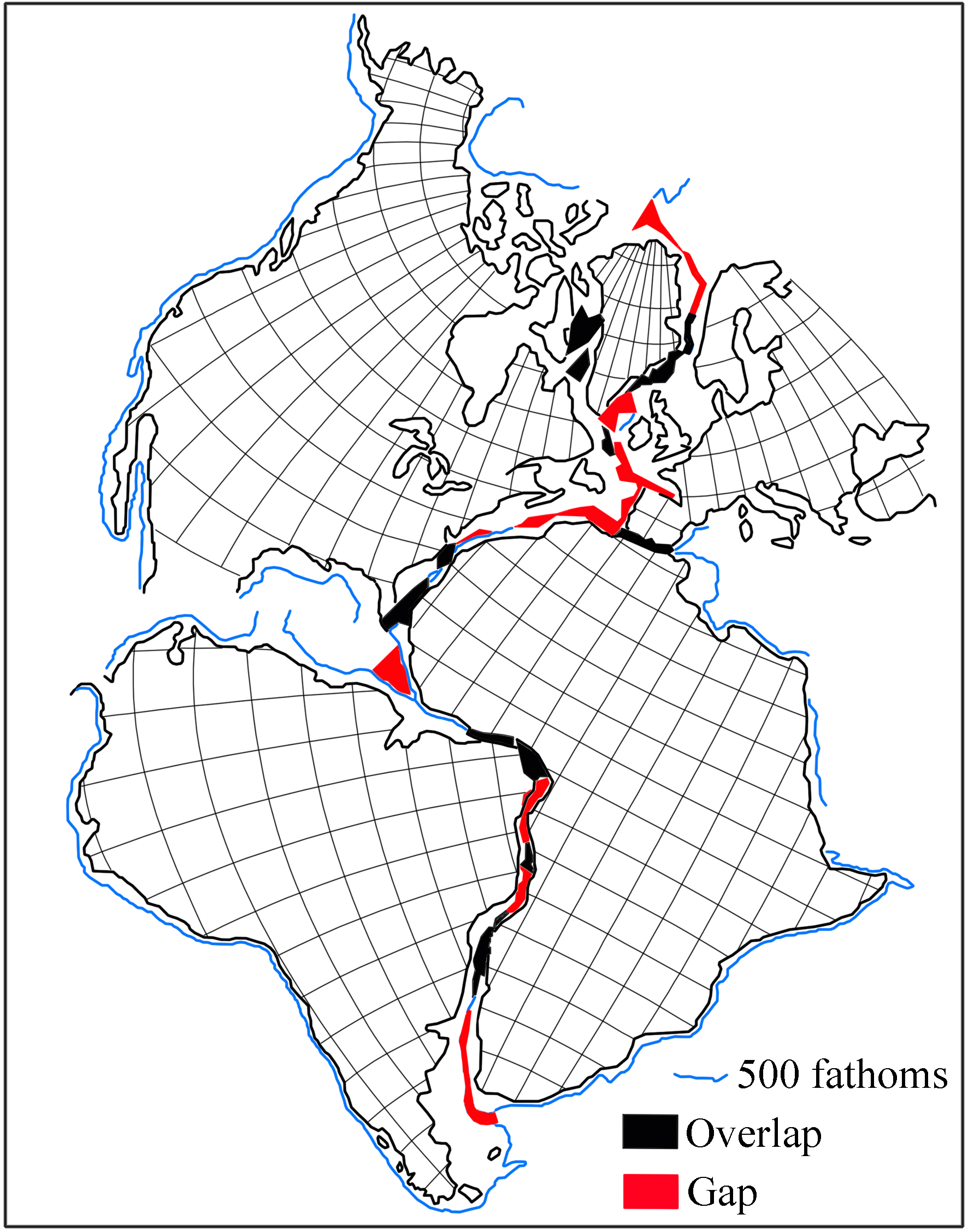 Bullard et al.'s fit of America, Greenland, Europe and Africa continents (1965).